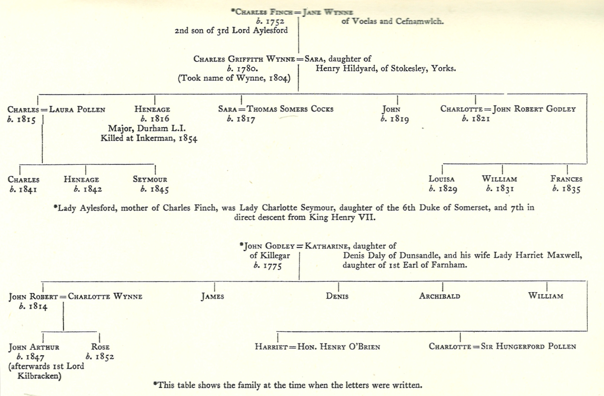 Family trees for Wynne and Godley families. The letters referred to were written between 1850 and 1852. The Godleys had further children afterwards; only those born until 1852 are shown.